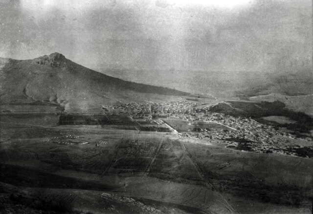 Bijar seen from a nearby hill. Starne's Detachment of Imperial Forces was stationed here. There is a large square in the centre of the town which was the residence of the Persian Governor. The residence was subsequently acquired for a British hospital